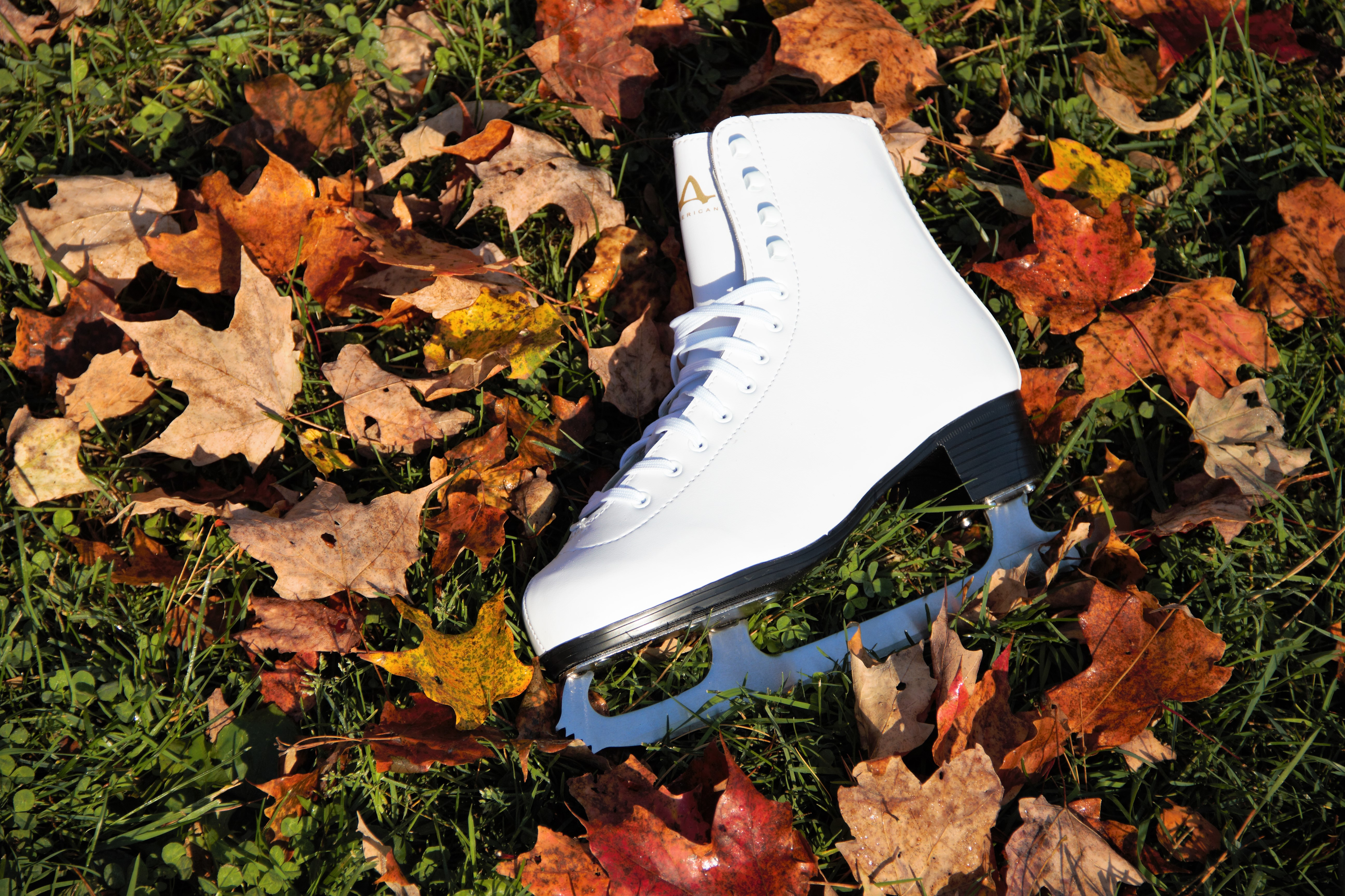 American Athletic Figure Skate